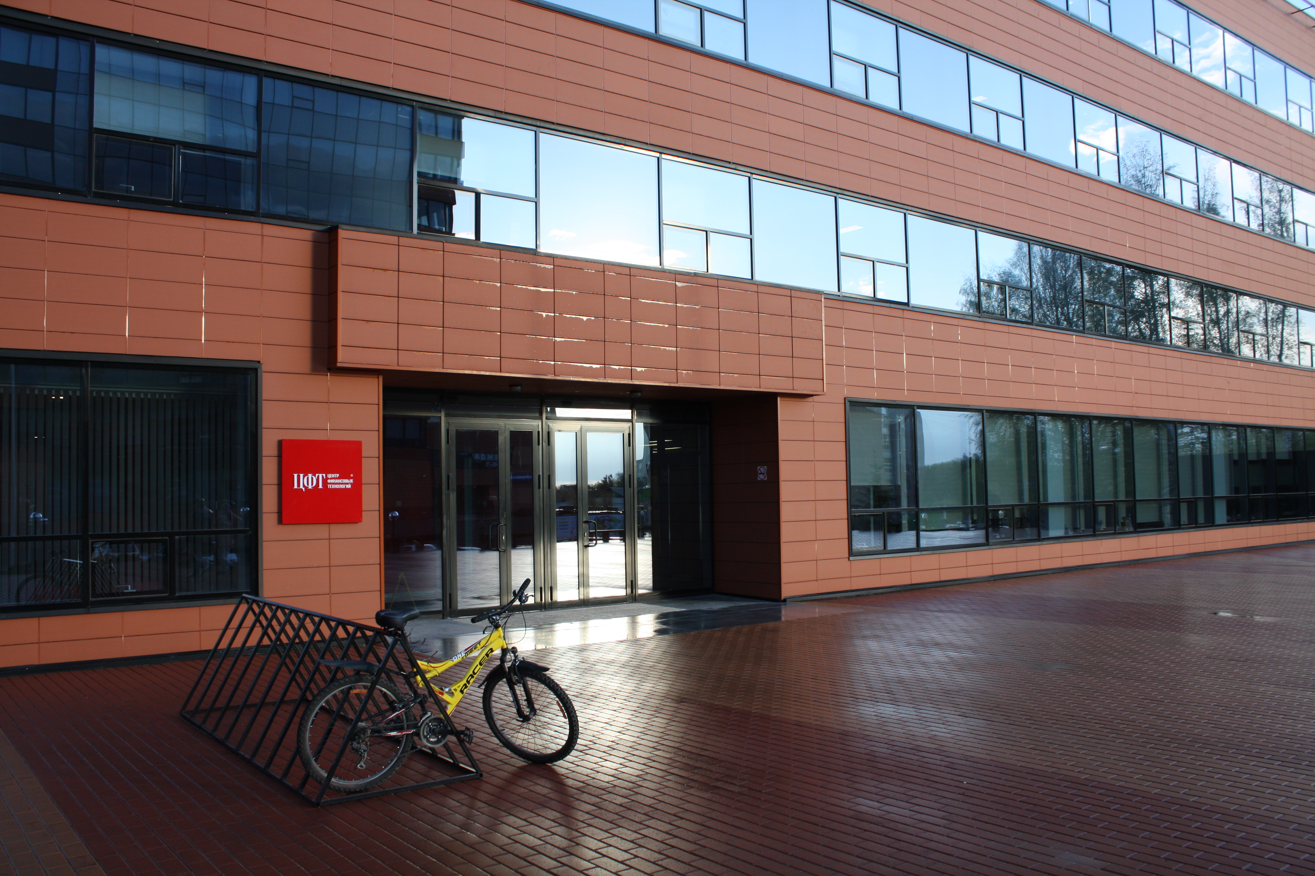 Center of Financial Technologies in Novosibirsk Technopark.